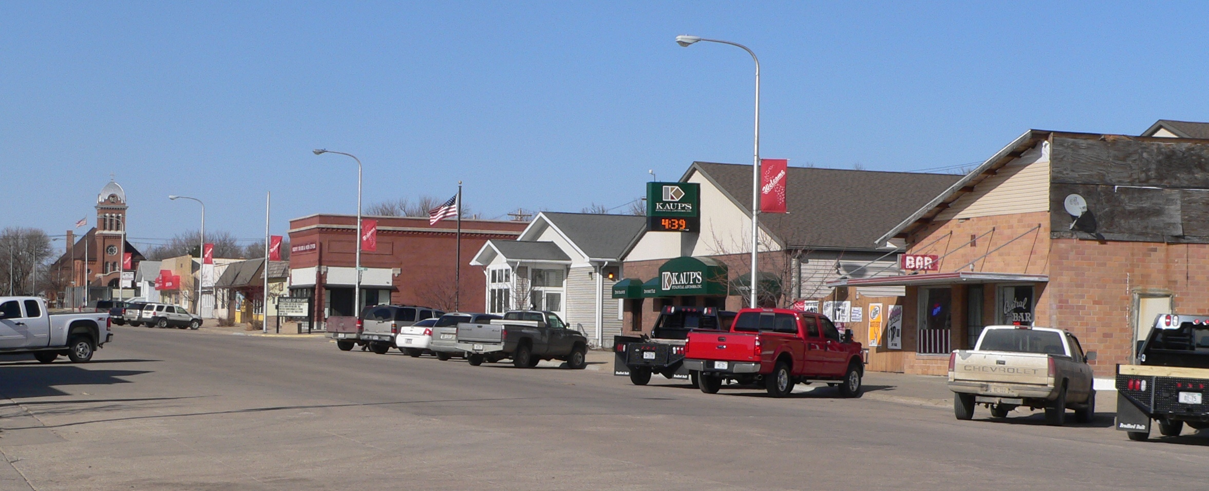 Downtown Stuart, Nebraska: east side of Main Street, looking northeast from about First Street.